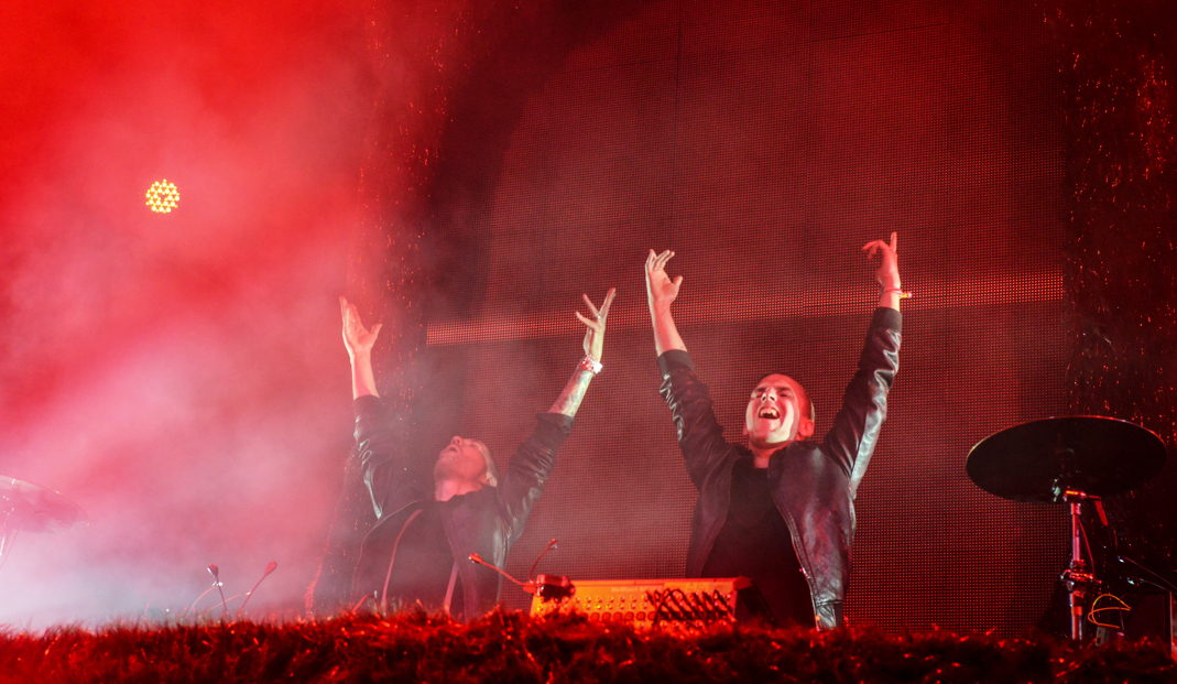 Shot by Shawn Ahmed